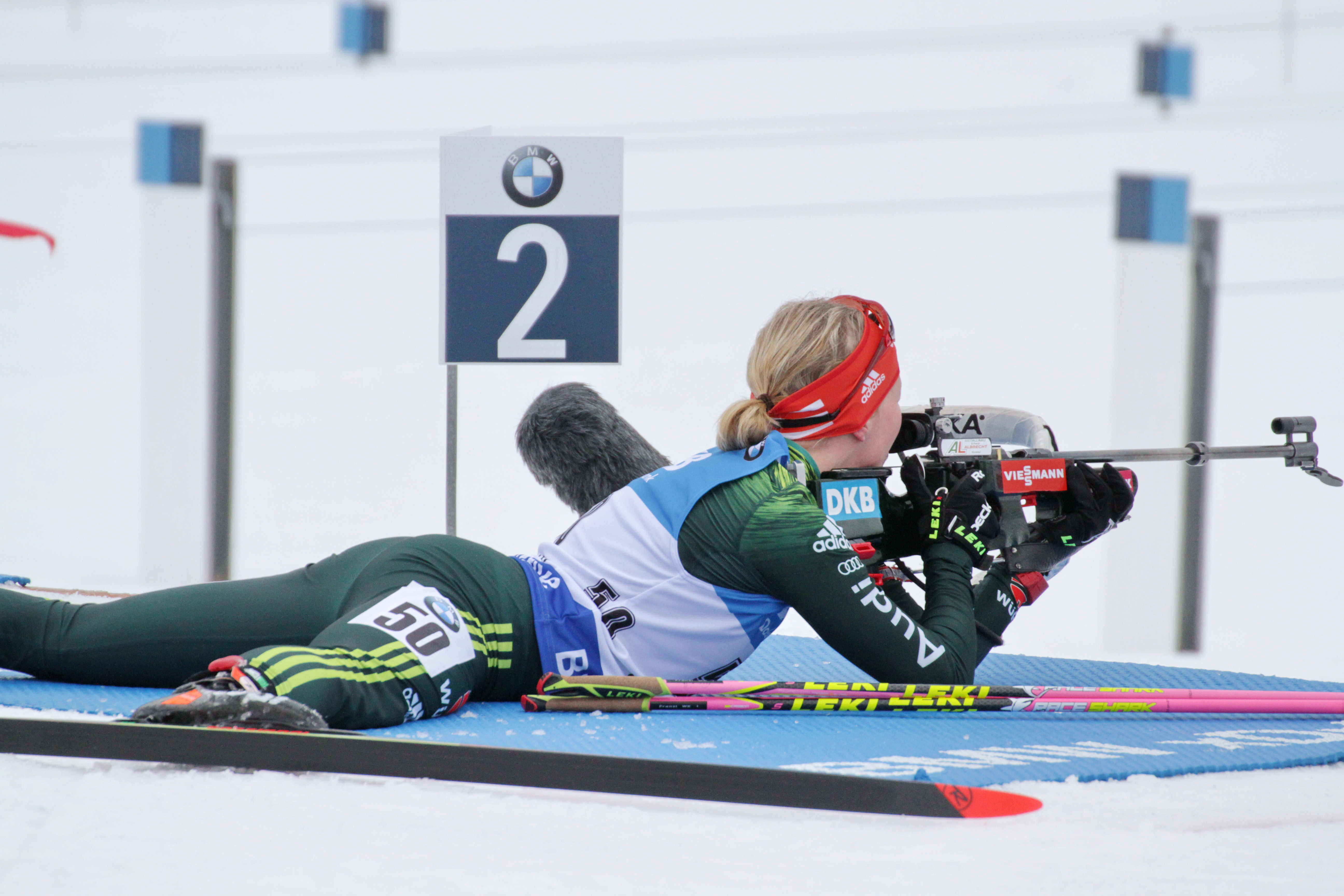 2018 Oberhof Biathlon World Cup - Sprint Women